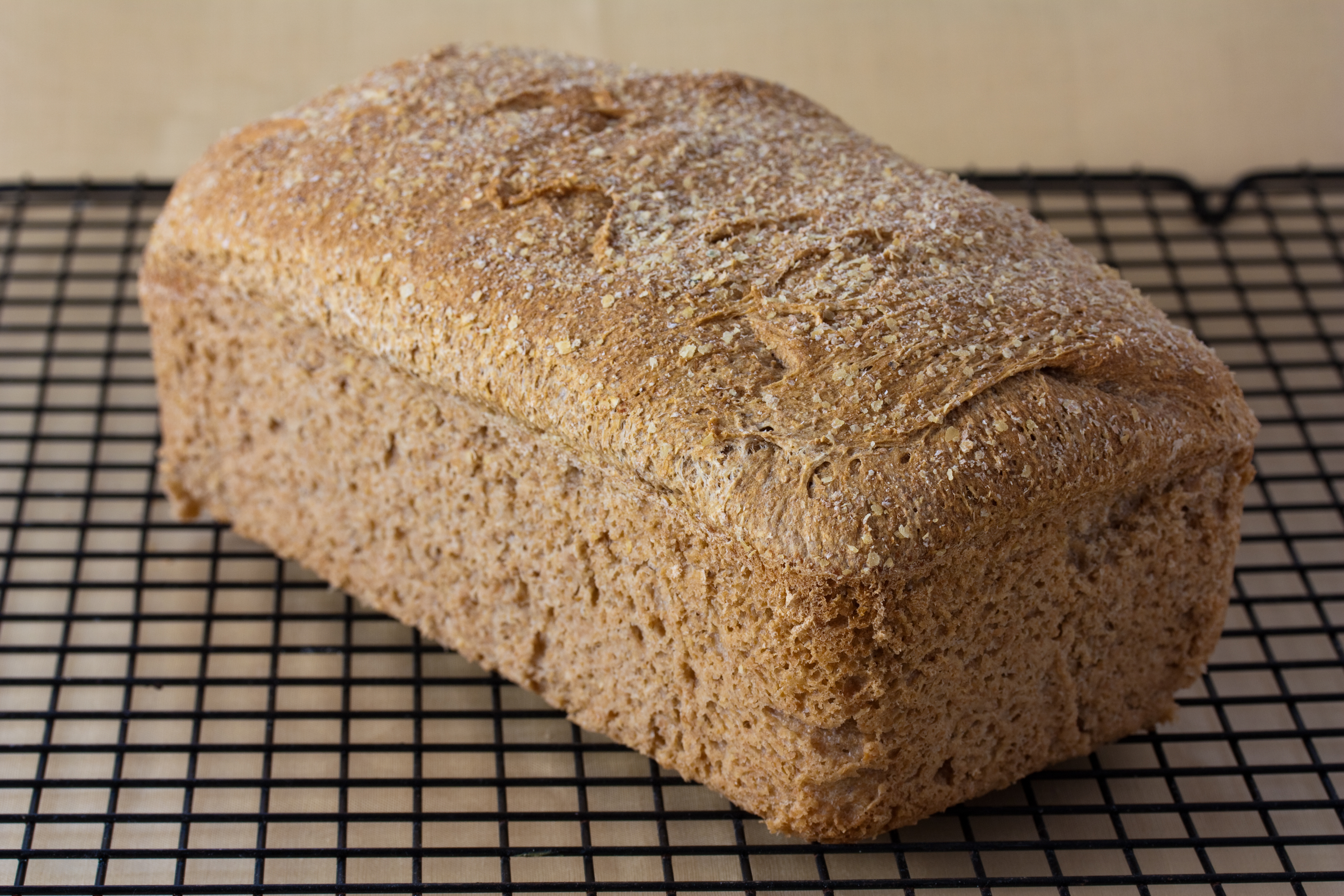 Vegan no-knead whole wheat bread loaf.